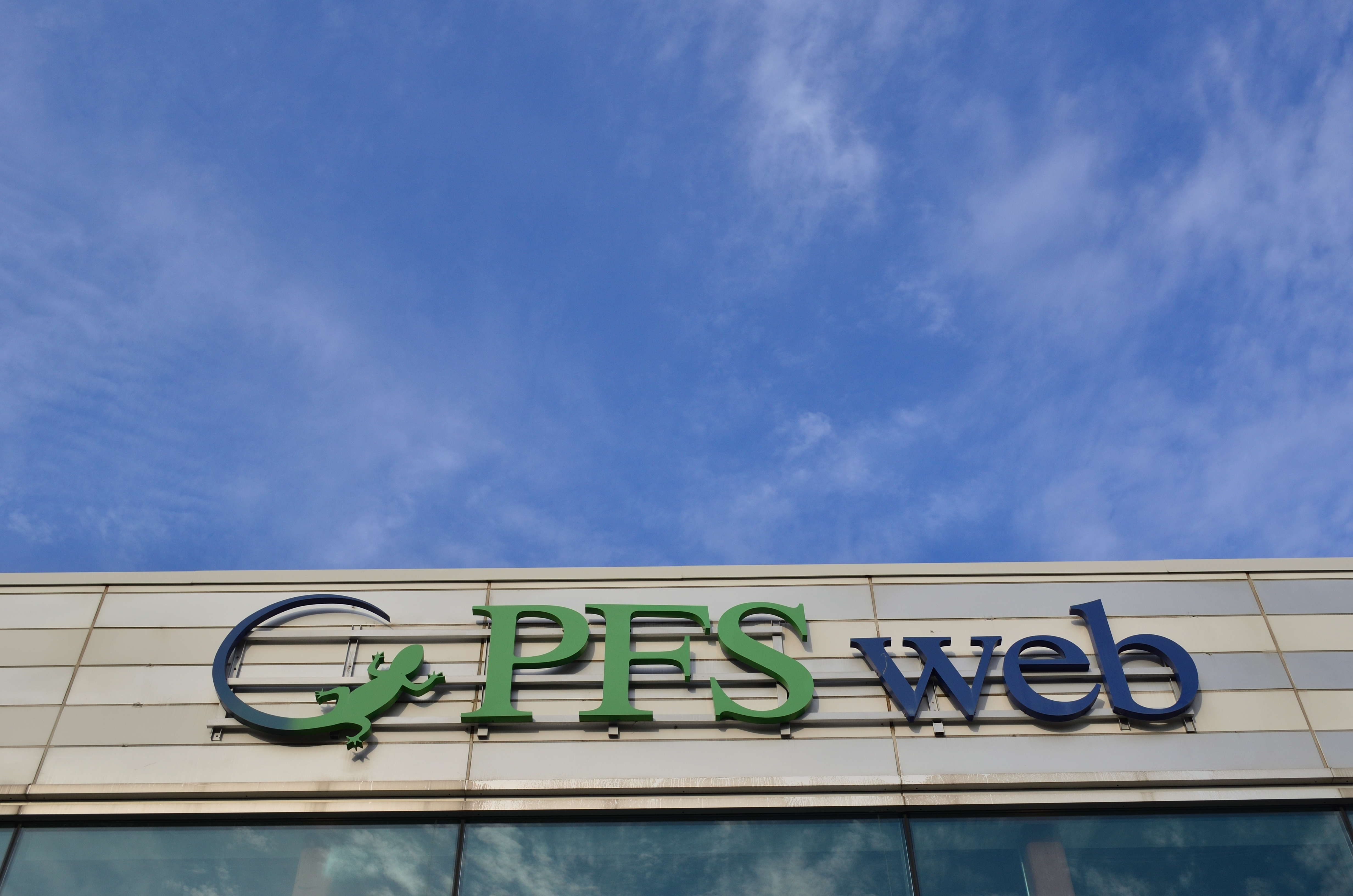 PFSweb, 9133 Leslie Street, Richmond Hill